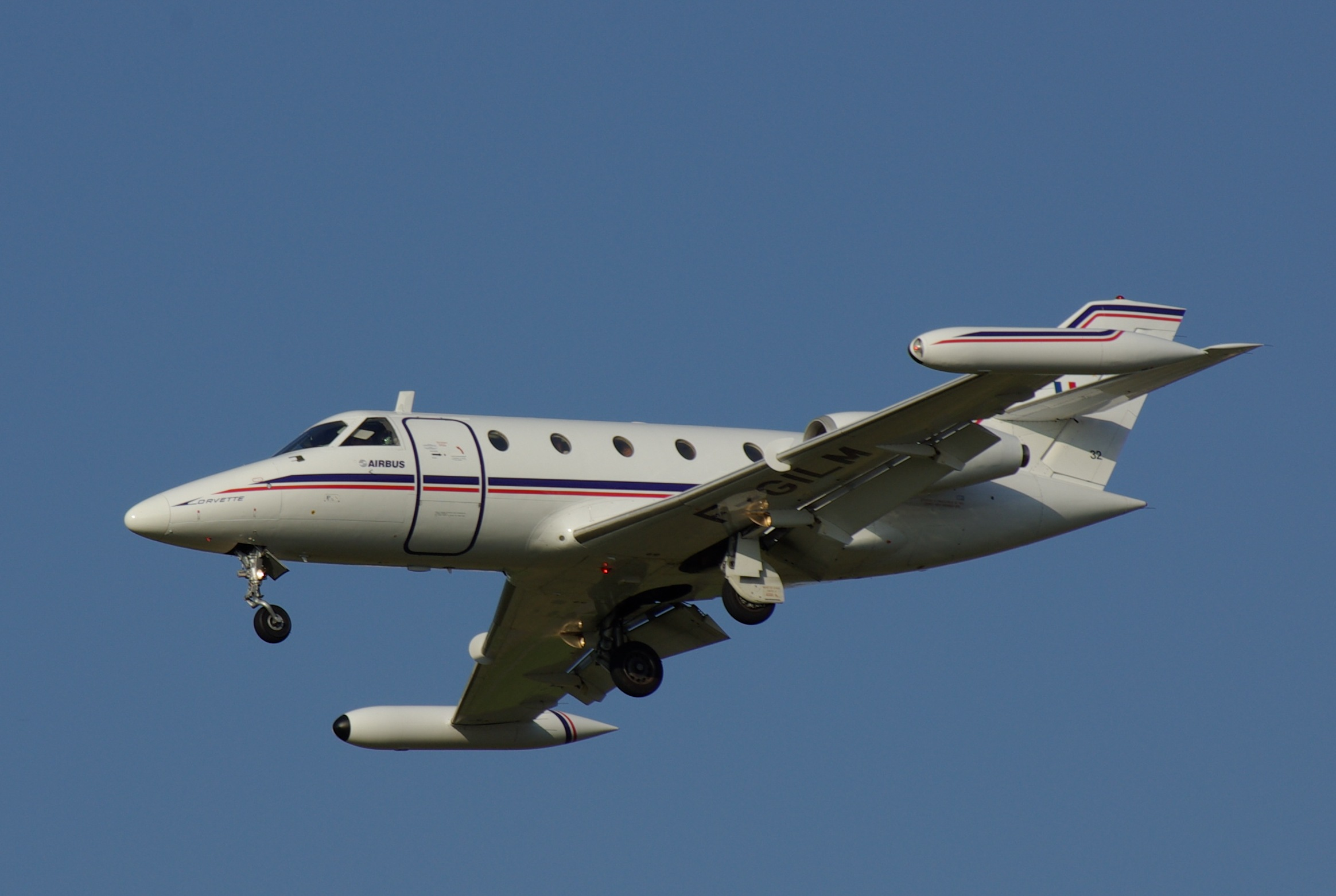 An Aerospatiale Corvette used by Airbus landing at Toulouse-Blagnac